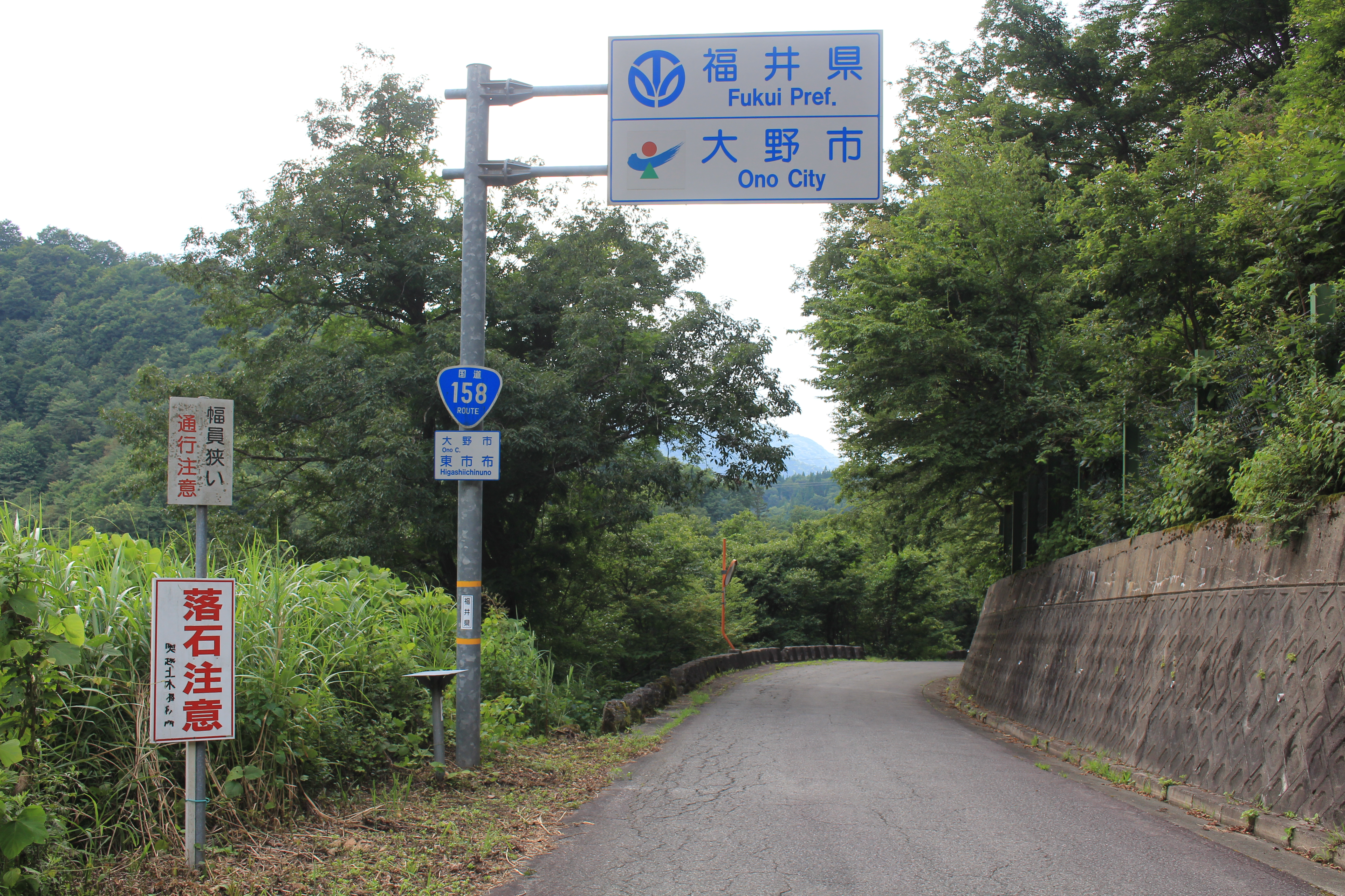 Route 158, in Higashiichinuno, Ōno, Fukui prefecture, Japan.